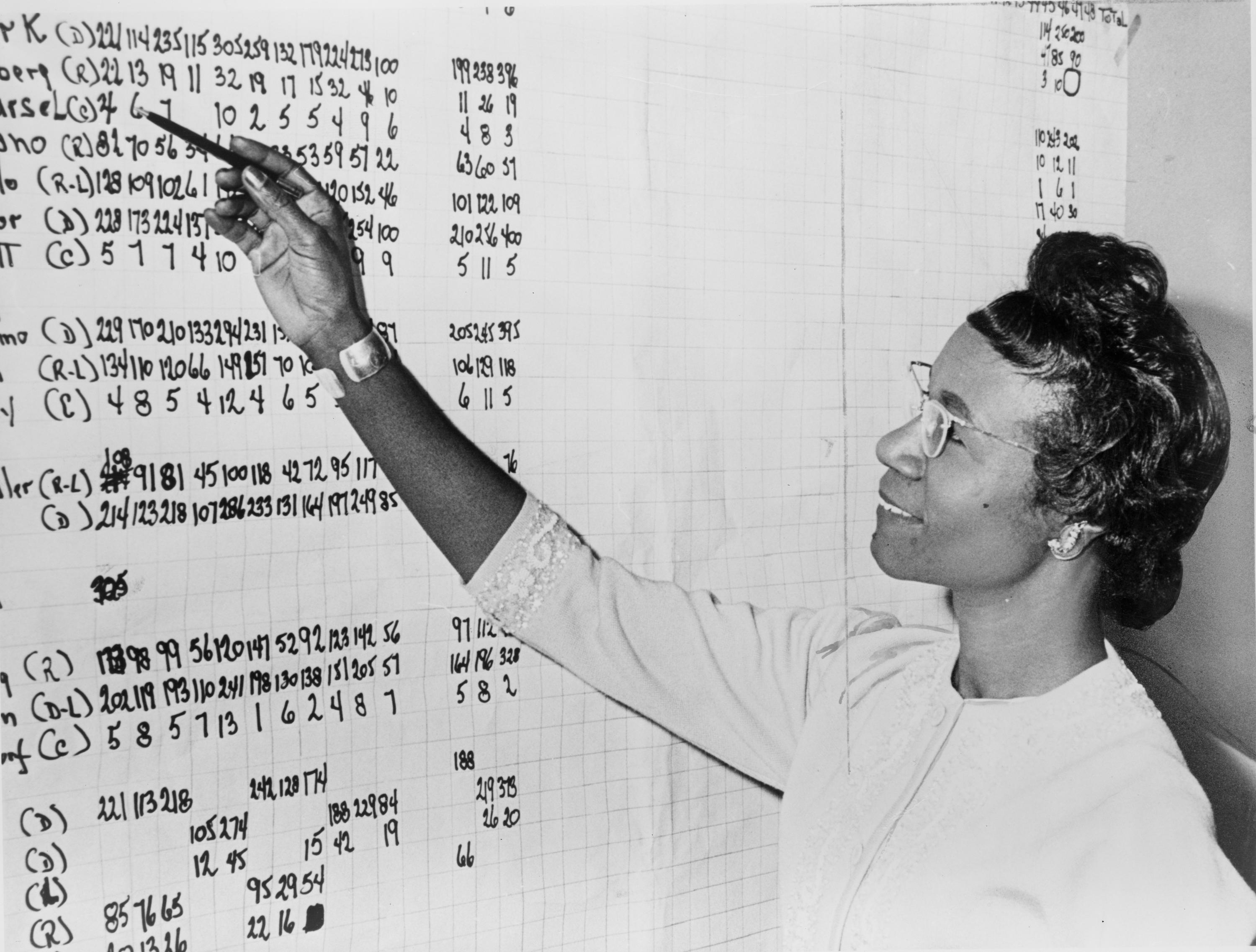 Shirley Chisholm, Congresswoman from New York, looking at list of numbers posted on a wall